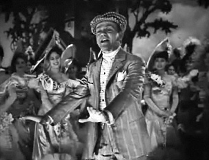 screenshot of James Cagney from the trailer for the film Yankee Doodle Dandy